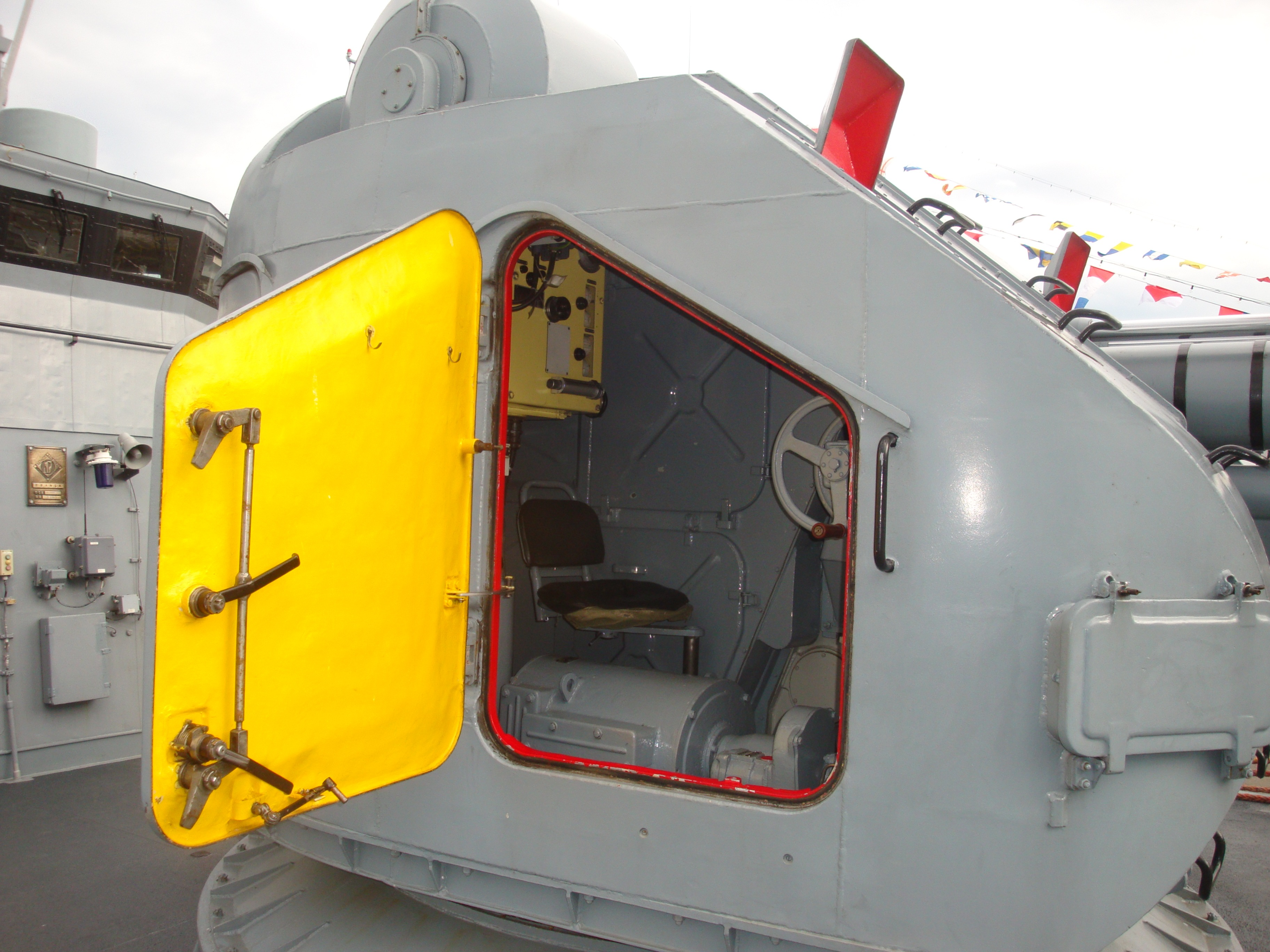 ORP Grom – an Orkan-class fast attack craft of Polish Navy.Operator's seat in turret of AK-176 gun